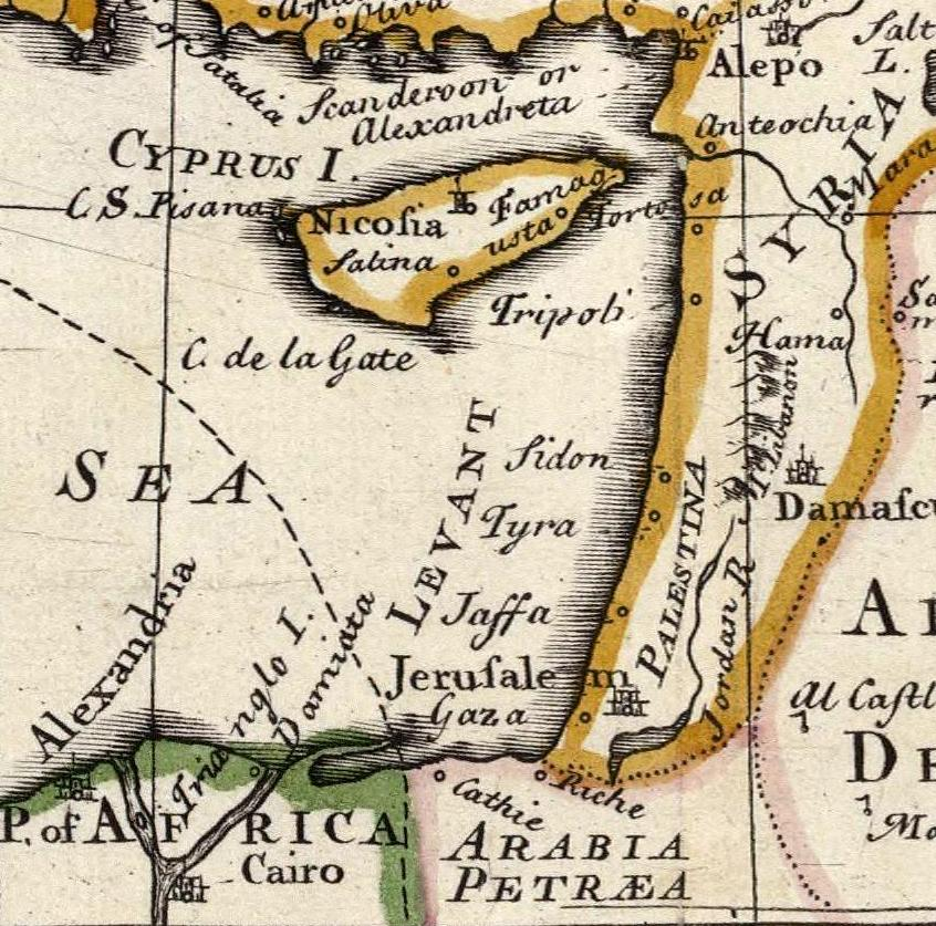 Turkey in Asia; or Asia Minor &c. Agreeable to modern history. By H. Moll Geographer. (Printed and sold by T. Bowles next ye Chapter House in St. Pauls Church yard, & I. Bowles at ye Black Horse in Cornhill, 1736?)